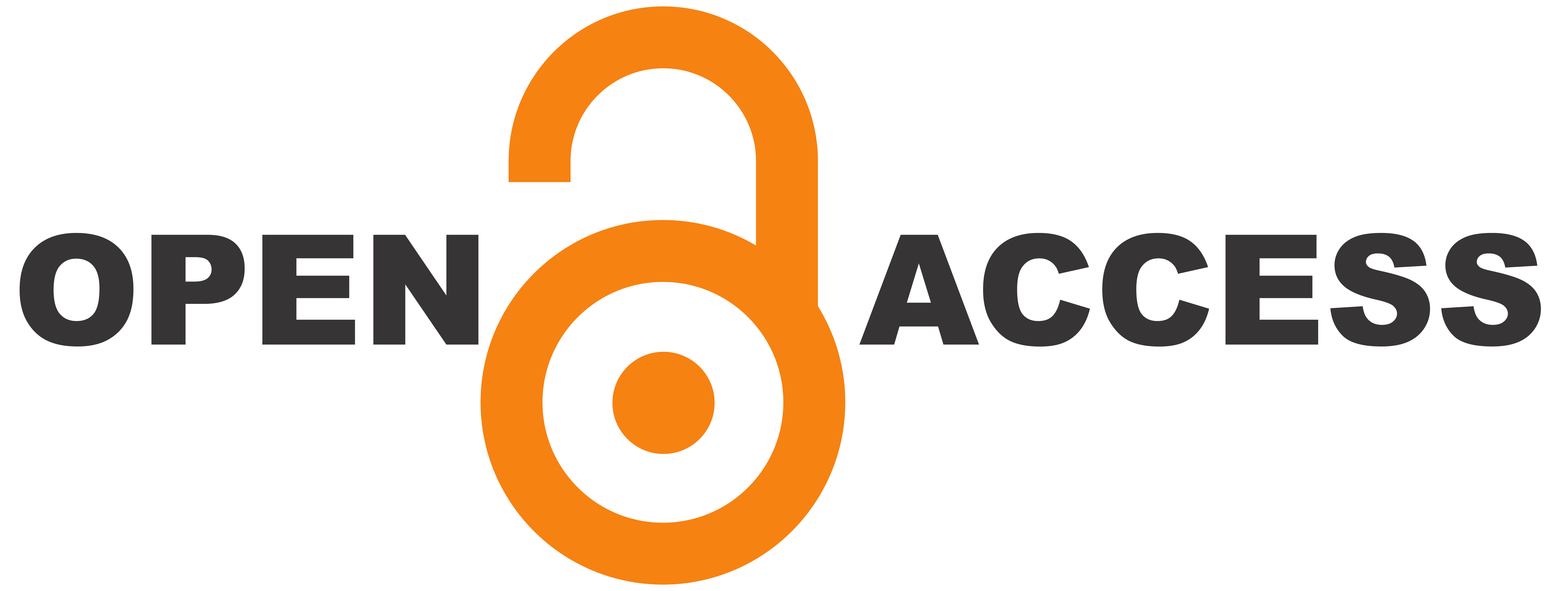 Large variant of the Open Access logo with dark gray text for contrast (and visual punch), on transparent background.